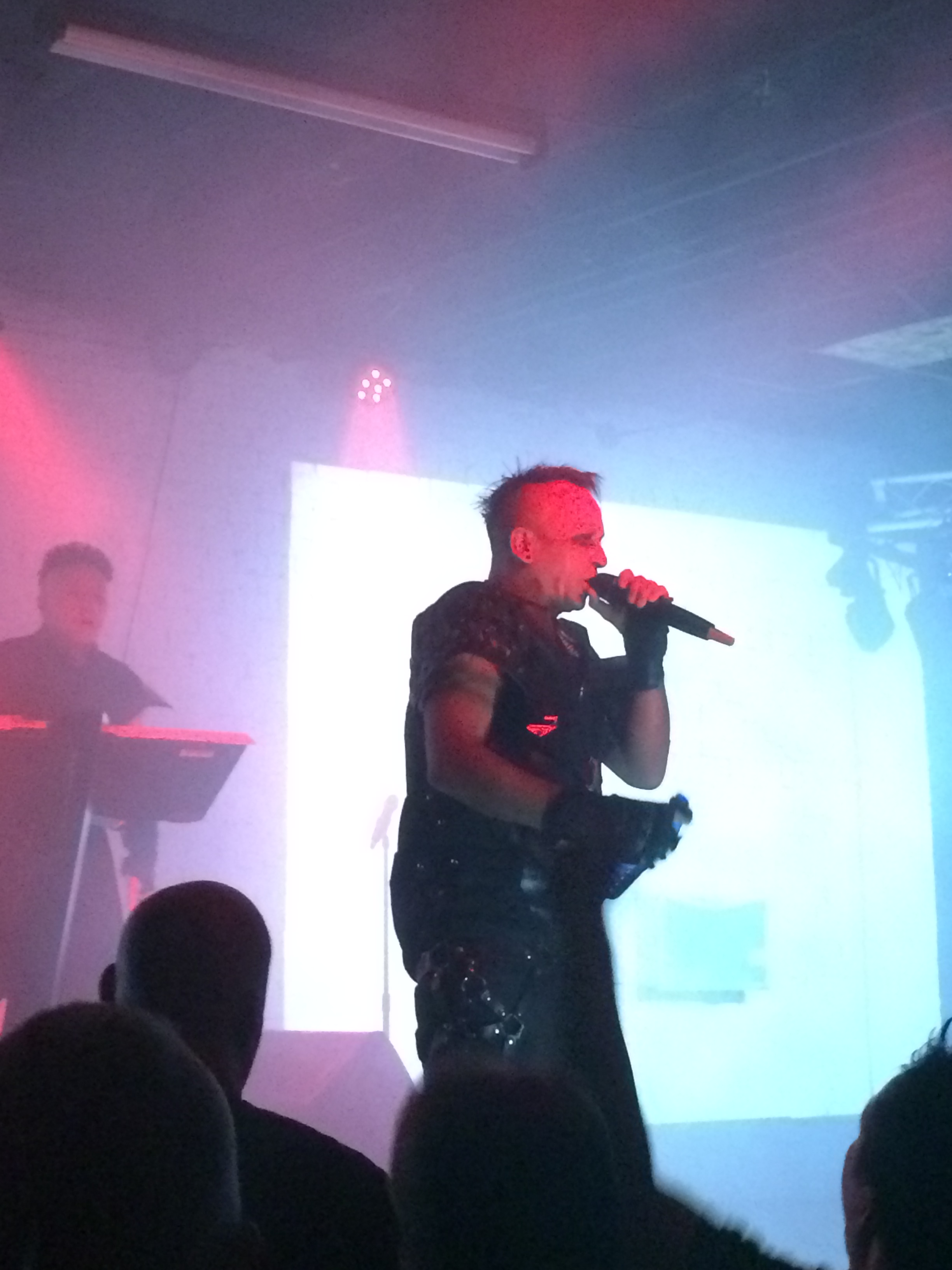 Hocico performing at the 2015 Dark Arts Festival in Salt Lake City, Utah, USA